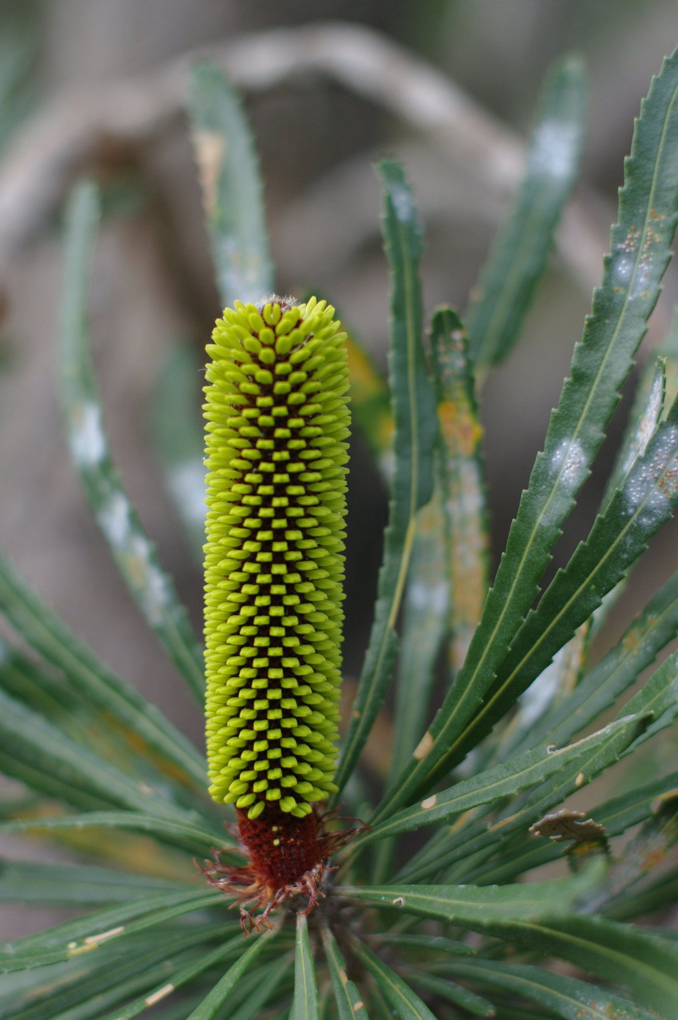 Banksia attenuata in Wireless hill reserve Booragoon Western Australia inflorescence with buds, note the rust on the leaves